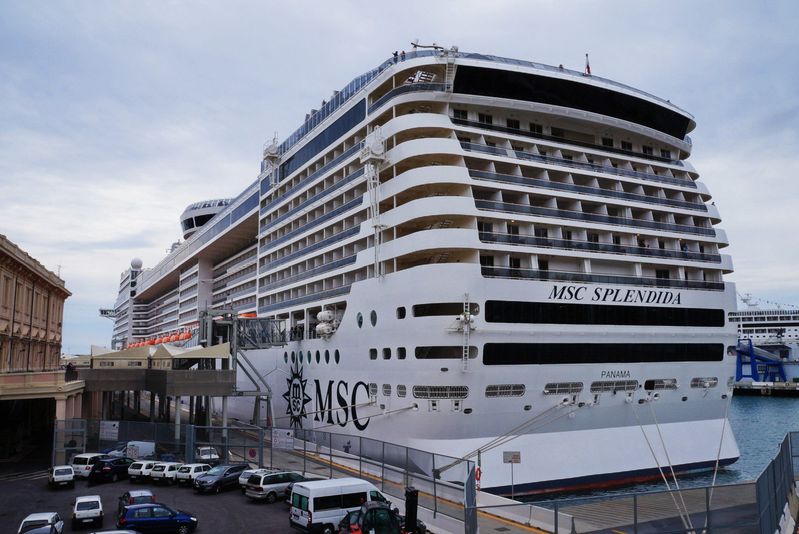 The MSC Splendida, one of the biggest cruise ships.